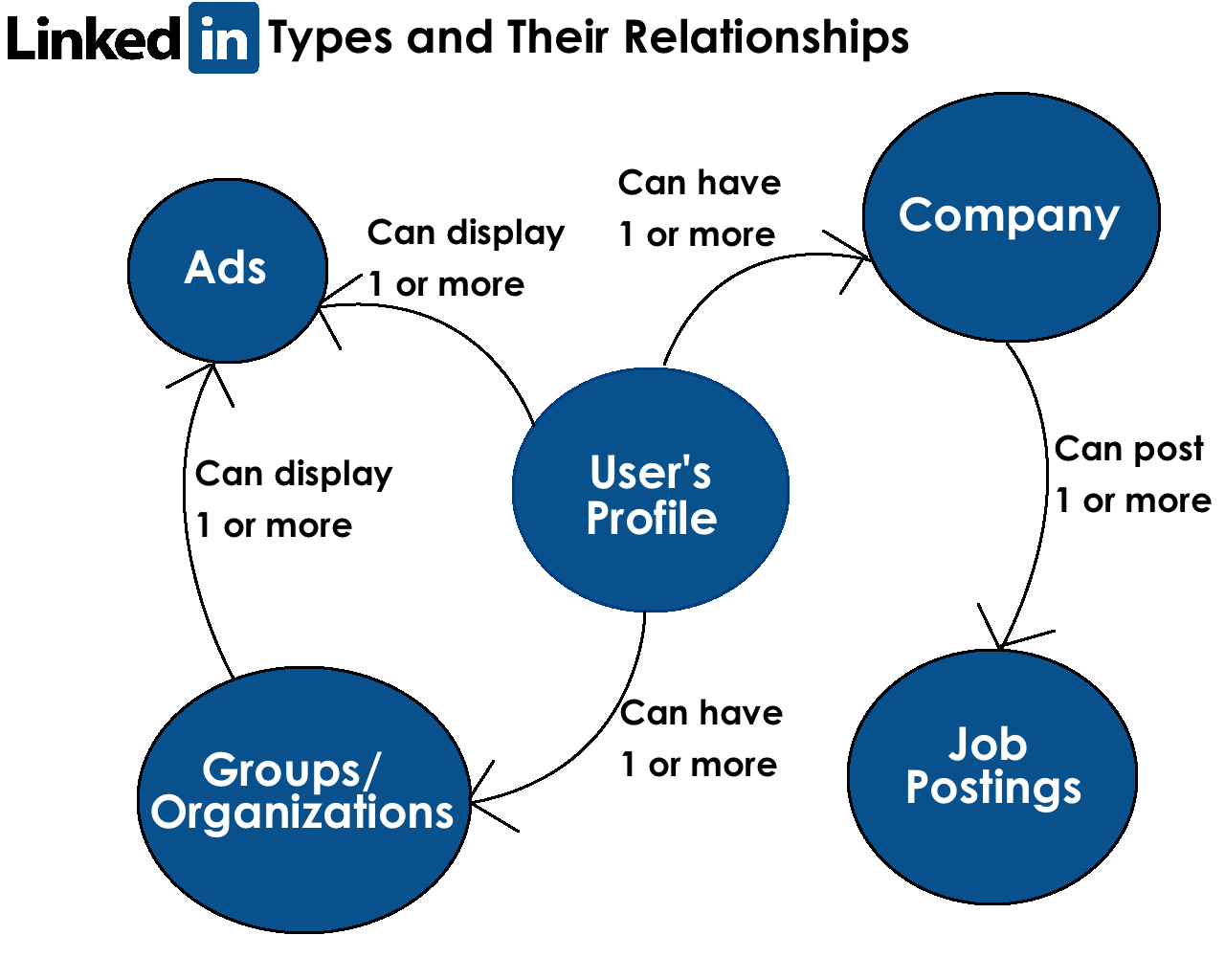 A diagram showing five of the main types of info and their relationships on LinkedIn.